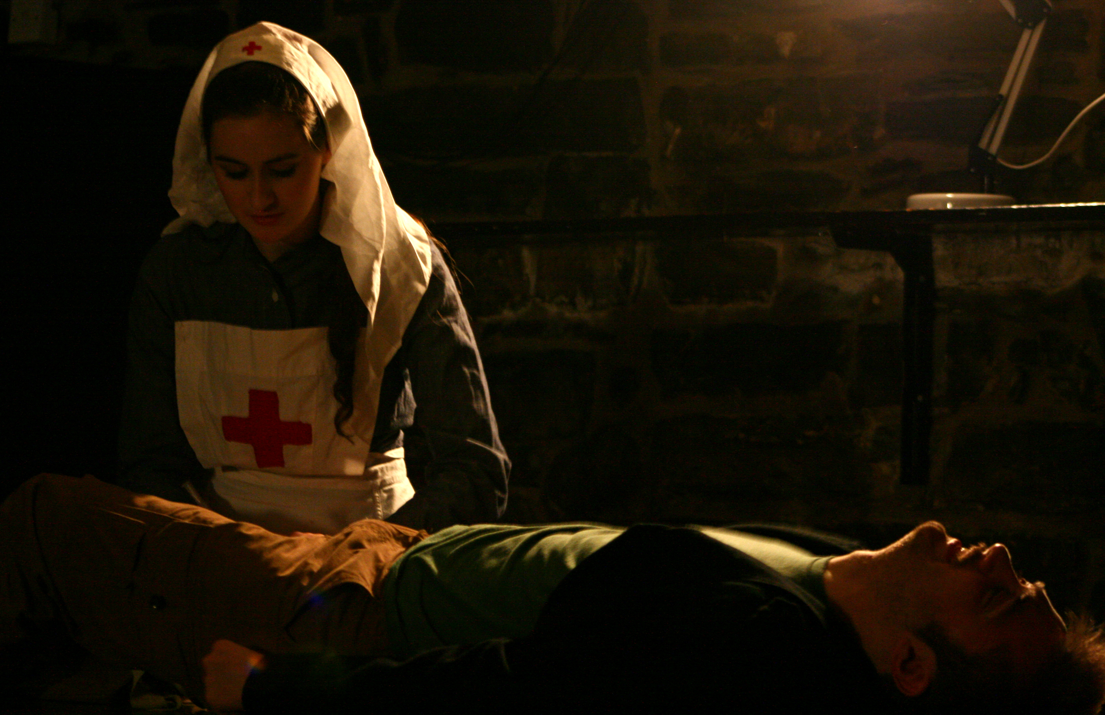 'Marianne Hayes and Cameron Fairburn in Broad-Ways' 2013 Independent Theatre Production, 'A Strange Meeting'.' Photography by Claire Waterfield. Produced by Broad-Ways Theatre and Film Society of Aberystwyth University.